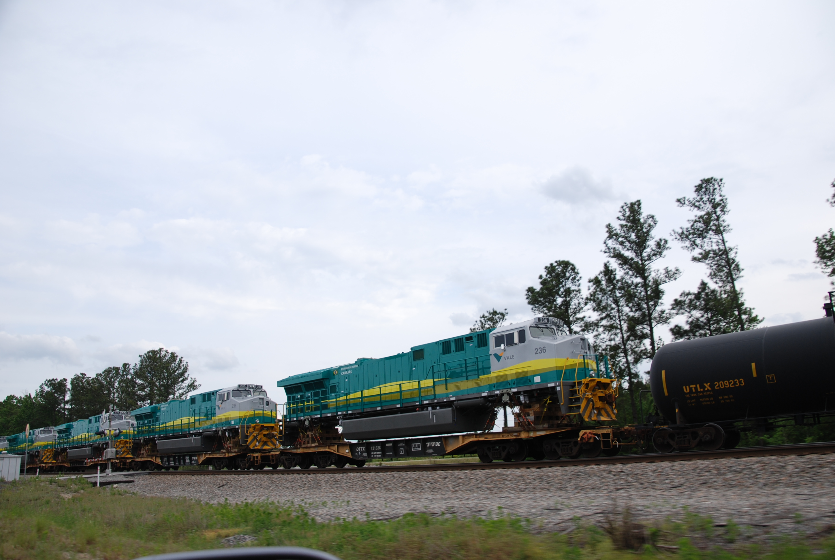 While traveling in southern Virginia heading toward North Carolina's Outer Banks on May 13, 2012, we ran parallel to a Norfolk Southern freight train hauling brand new General Electric locomotives. These railway engines were GE ES58ACi export versions built for the Vale Railroad system in Brazil. From markings on the engines, it appears they are destined for use in passenger service on the Carajás Railroad. The Carajás Railroad (EFC) passenger train links the states of Maranhão and Pará via 25 villages and towns. Safe and efficient, tickets for this service are up to 50% cheaper than road transportation, and it is the choice of 1,300 passengers per day. Six brand new engines were being transported on this fine spring day, with Vale engine numbers 231 through 236